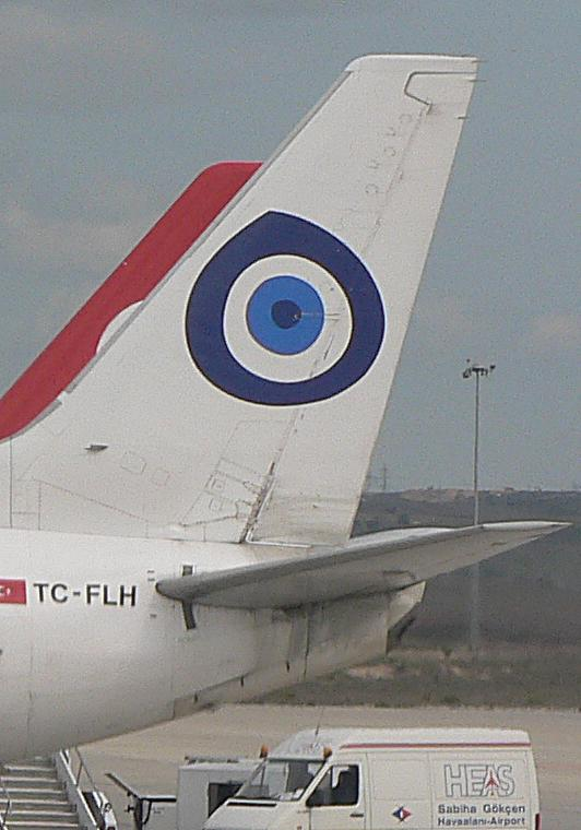 Mount Hymettus, view from the East